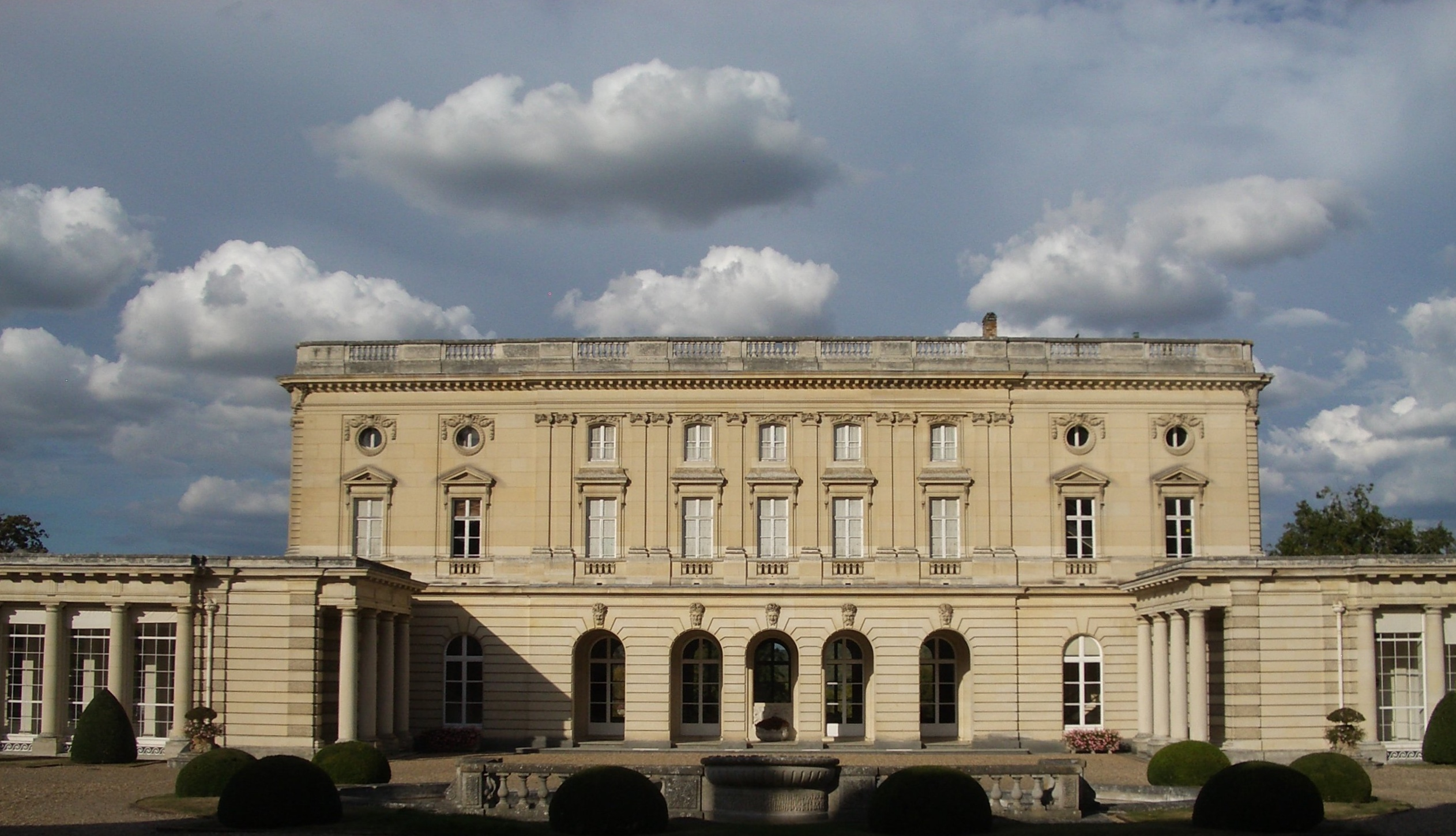 Castle of Bizy - Vernon (Eure)